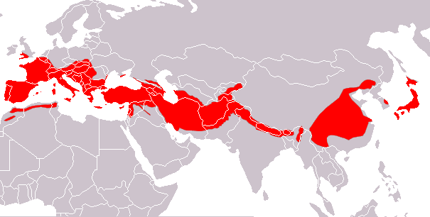 Greater Horseshoe Bat (Rhinolophus ferrumequinum) range